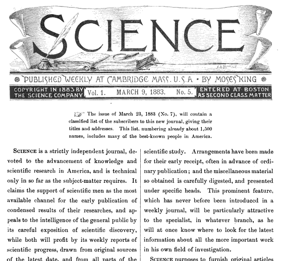 Detail from issue of Science magazine, v.1, no.5, 1883. Published by Moses King, Cambridge, Mass.